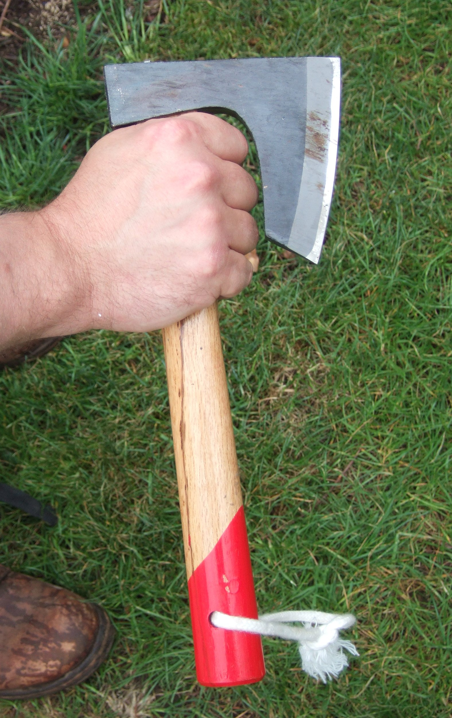 Modern Japanese carpenter's bearded axe